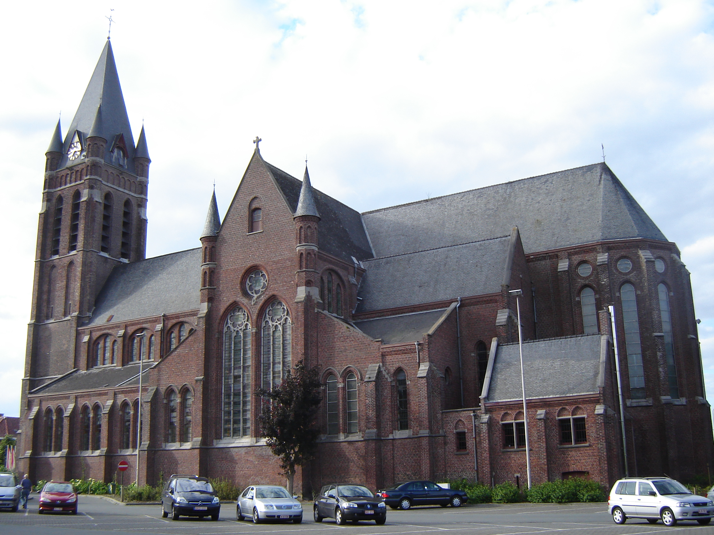 Church of Saint Martin in Avelgem, West Flanders, Belgium.